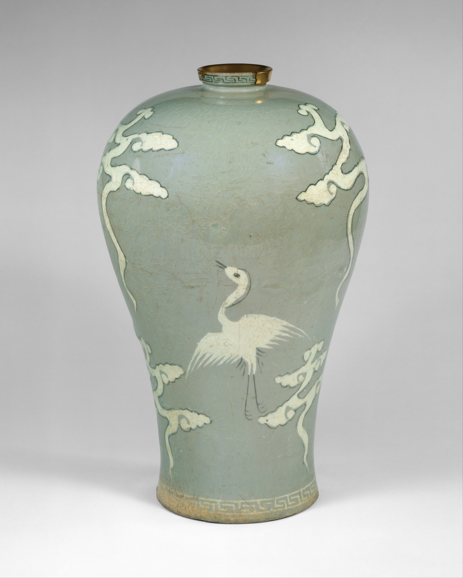 Korea; Vase; Ceramics